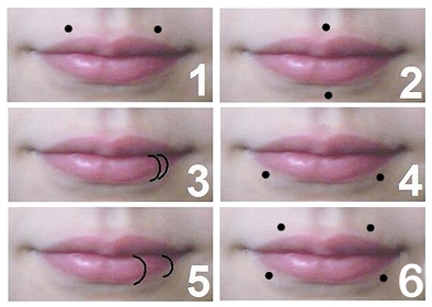 Illustrations of different types of lip piercings called "bites" on human lips.